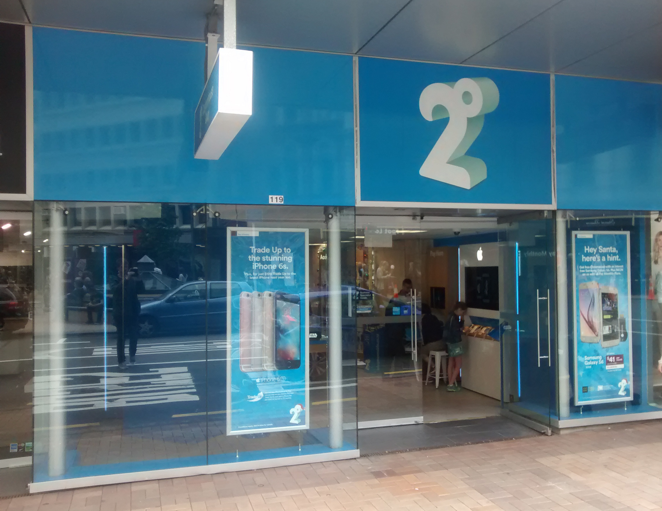 A 2degrees retail store on Customhouse Quay, Wellington